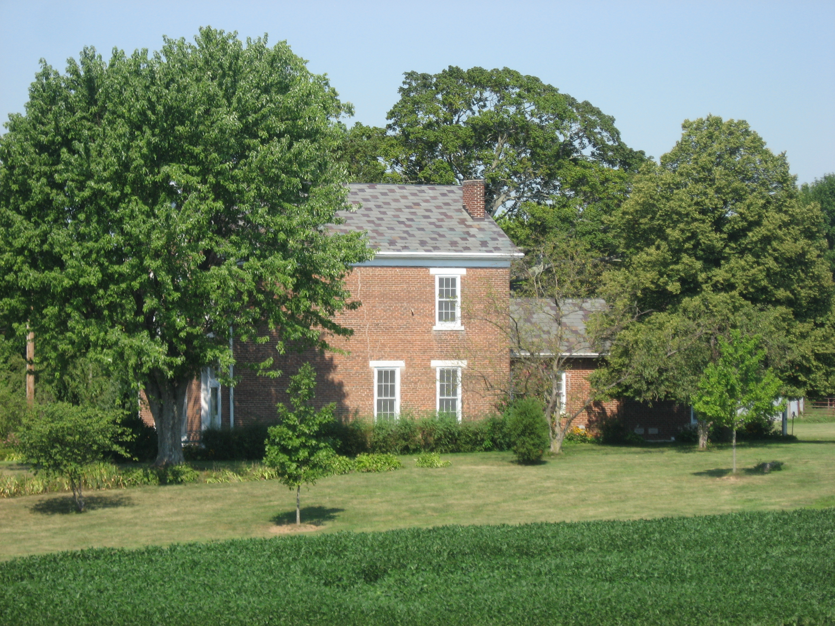 Side of the Cooper-Alley House, located along E. River Road south of Waldron in Noble Township, Shelby County, Indiana, United States. Built in 1863, it is listed on the National Register of Historic Places.